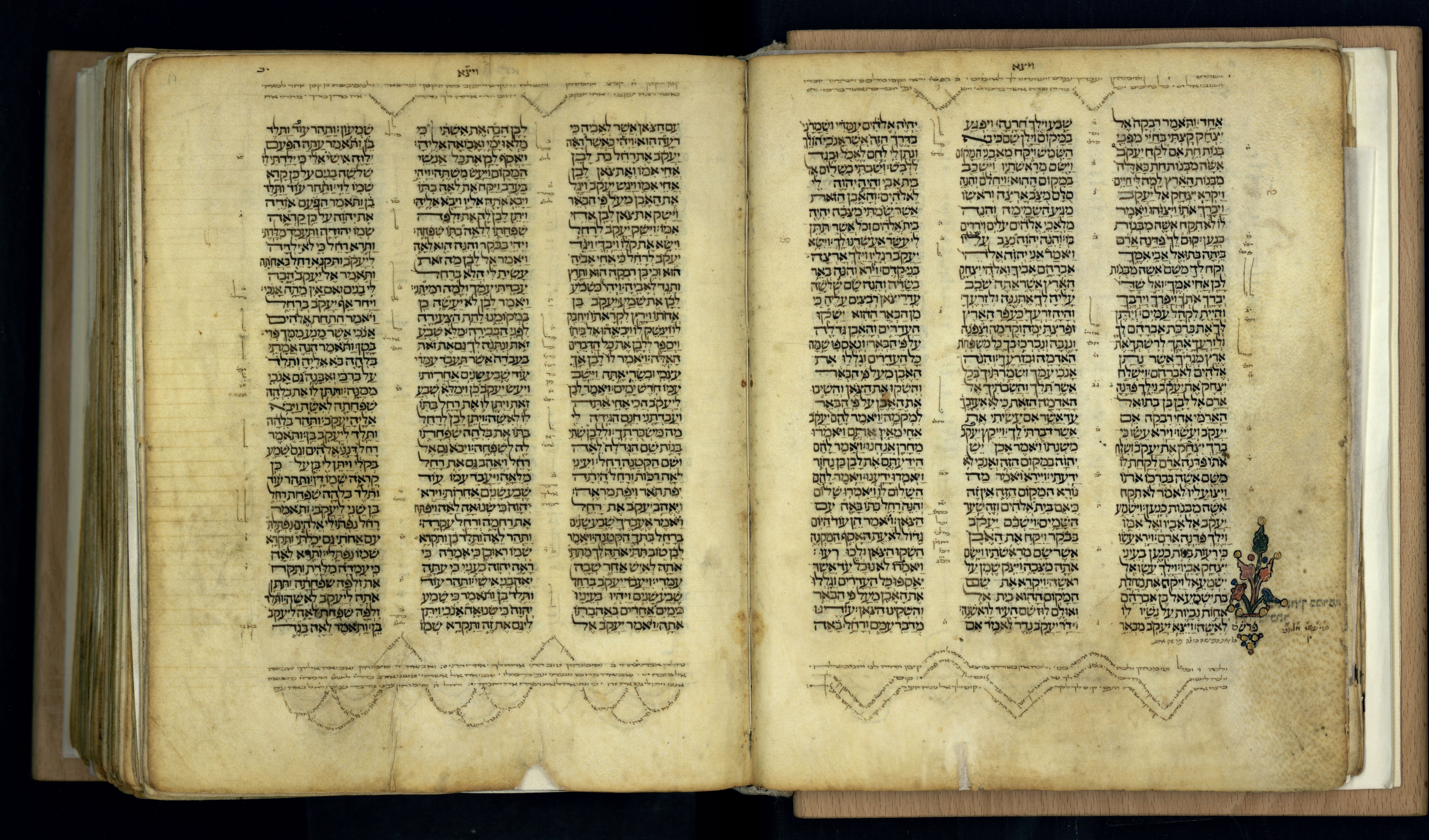 A Bible manuscript from 1300